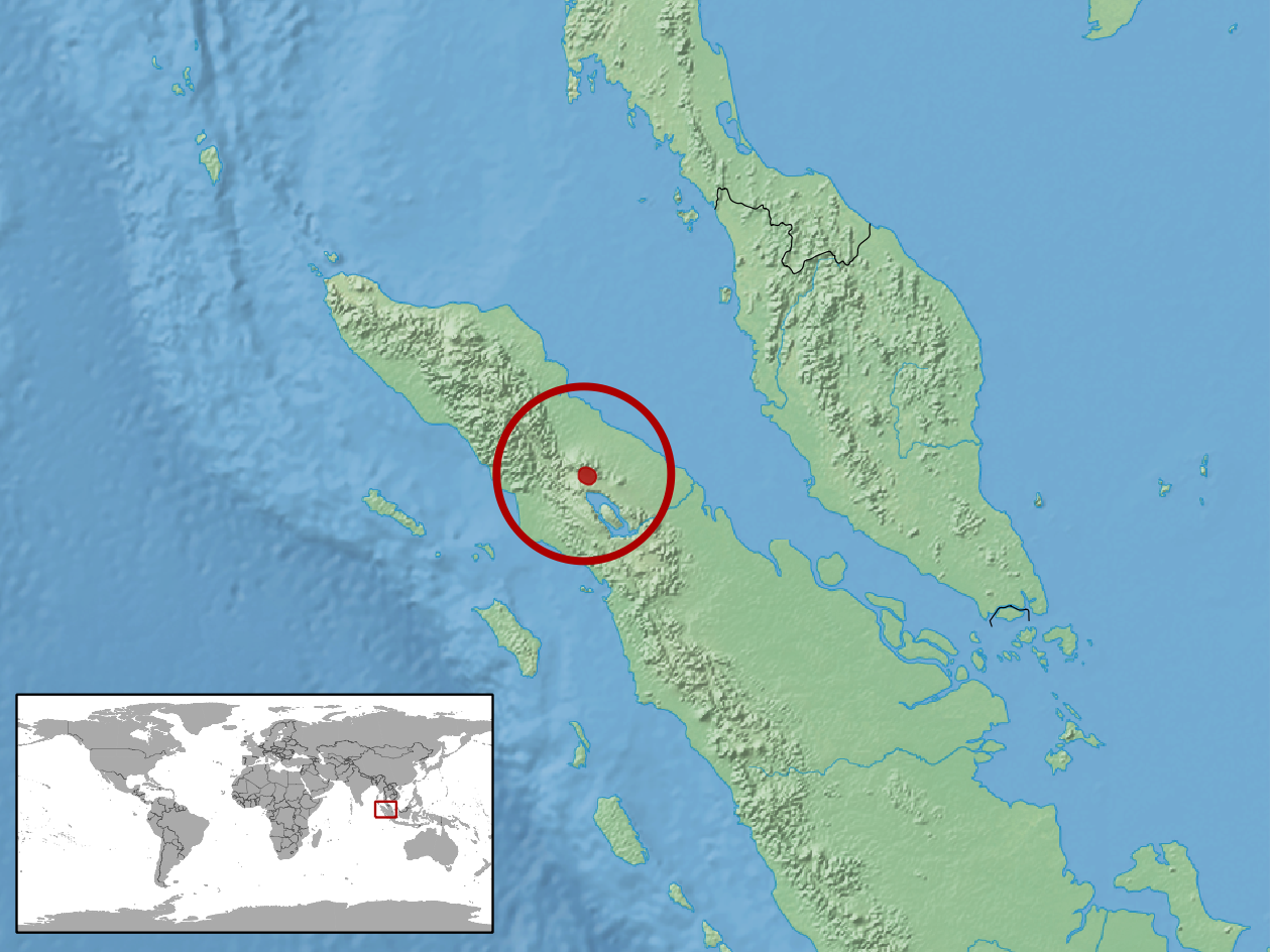 geographic distribution of Gonocephalus lacunosus (Native: Indonesia (Sumatra))